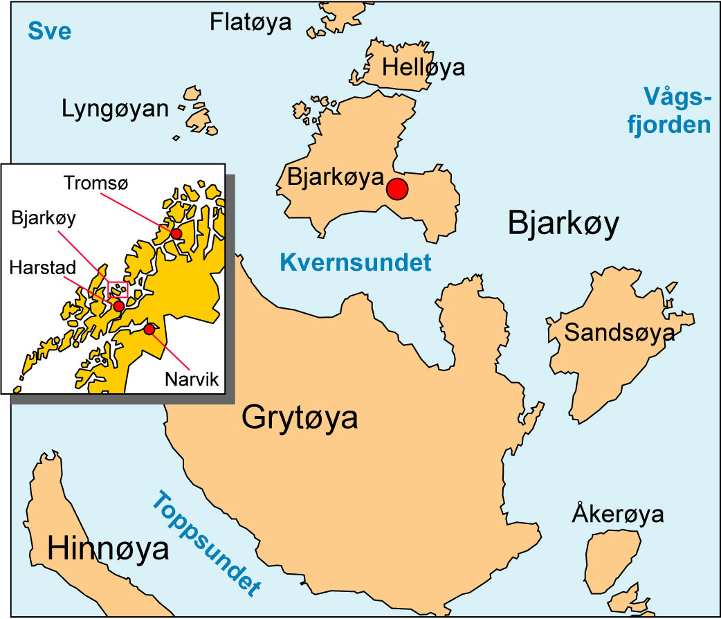 Map of Bjarkøy with the placement of Tore Hund's farm and the islands around (in Troms county/Fylke in Norway)